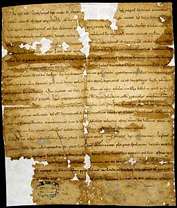 Charter of Croatian king Stjepan II. (Stephen II) to confirm the former charter of king Zvonimir for an estate of Pustica in Lužani to the St. Benedict Monastery in Split